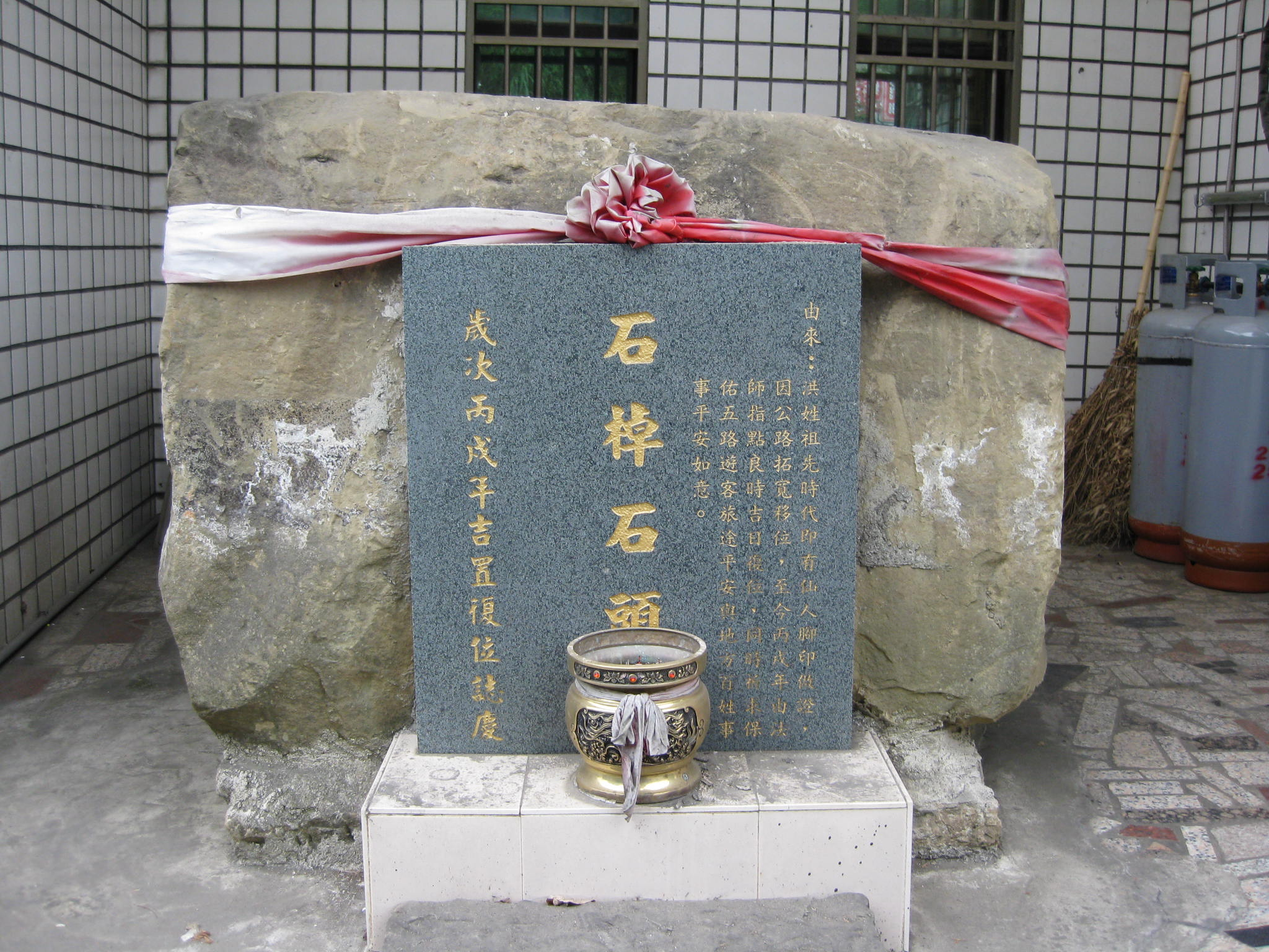 Shihjhuo is a stone deity worshipped in the village of Zhonghe and Leye.It takes its name from the shape of a stone deity which is like a stone table.